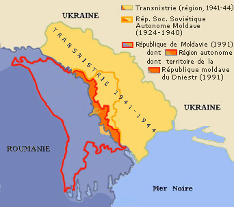 Transnistria as a geographic area